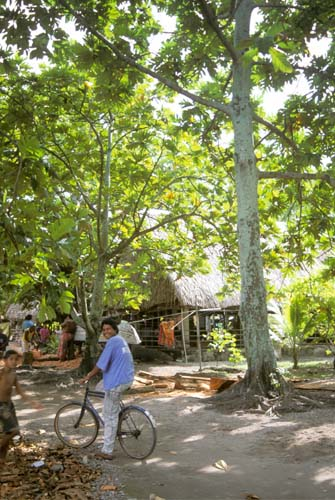 A typical street scene in Nanumea Village, Tuvalu.